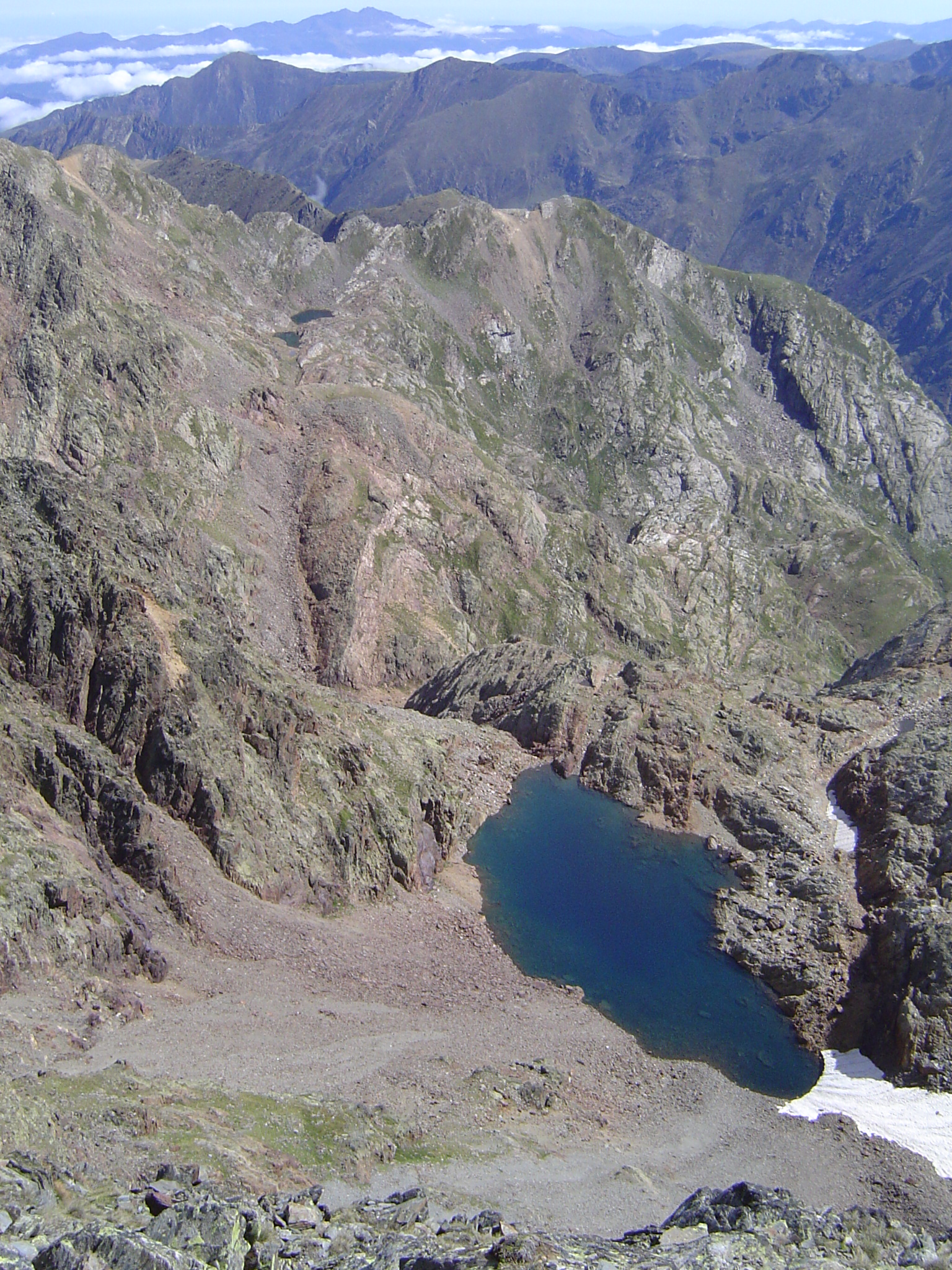 Estanh de Canalbòna seen from the "Collet Fals", in the Montcalm massif (Pirineus), Arieja, França.